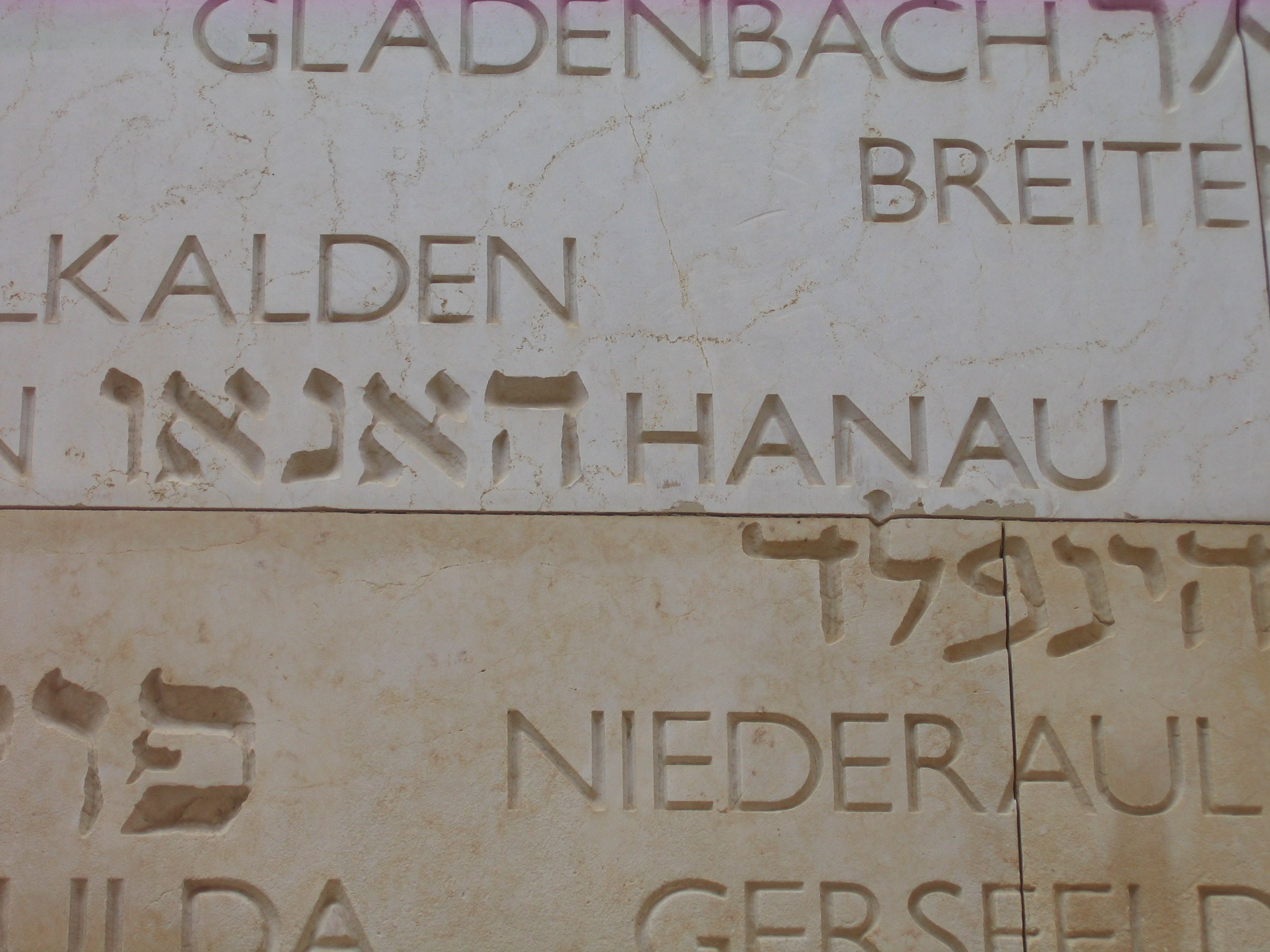 Valley of the Communities, Yad Vashem: Inscription for the community of Hanau